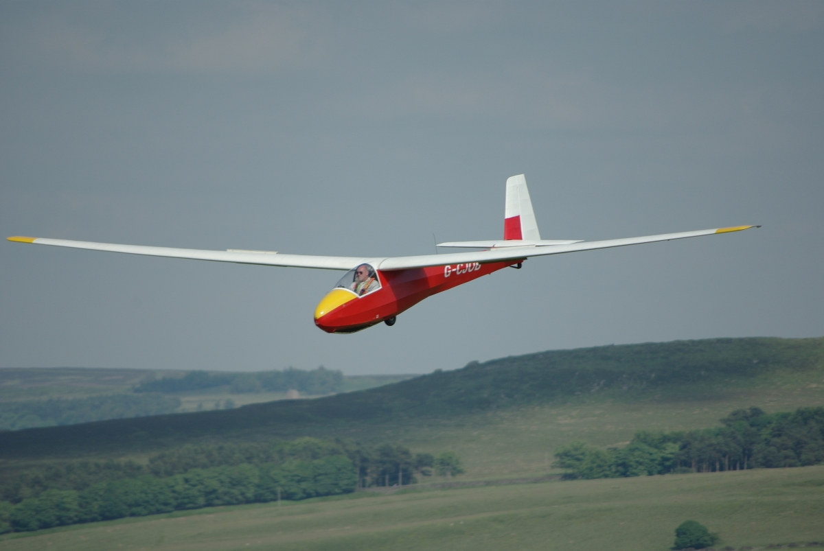 Schleicher K 8B G-CJOB/JOB at the Vintage Glider Club Rally, Camphill Derbyshire